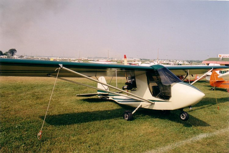 I took this photo of a Quad City Challenger I single seat ultralight at Oshkosh 2001.